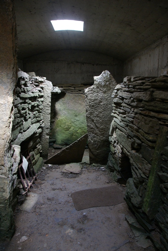 Isbister Chambered Cairn, South Ronaldsay, Orkneys, Scotland. Interior, looking north.